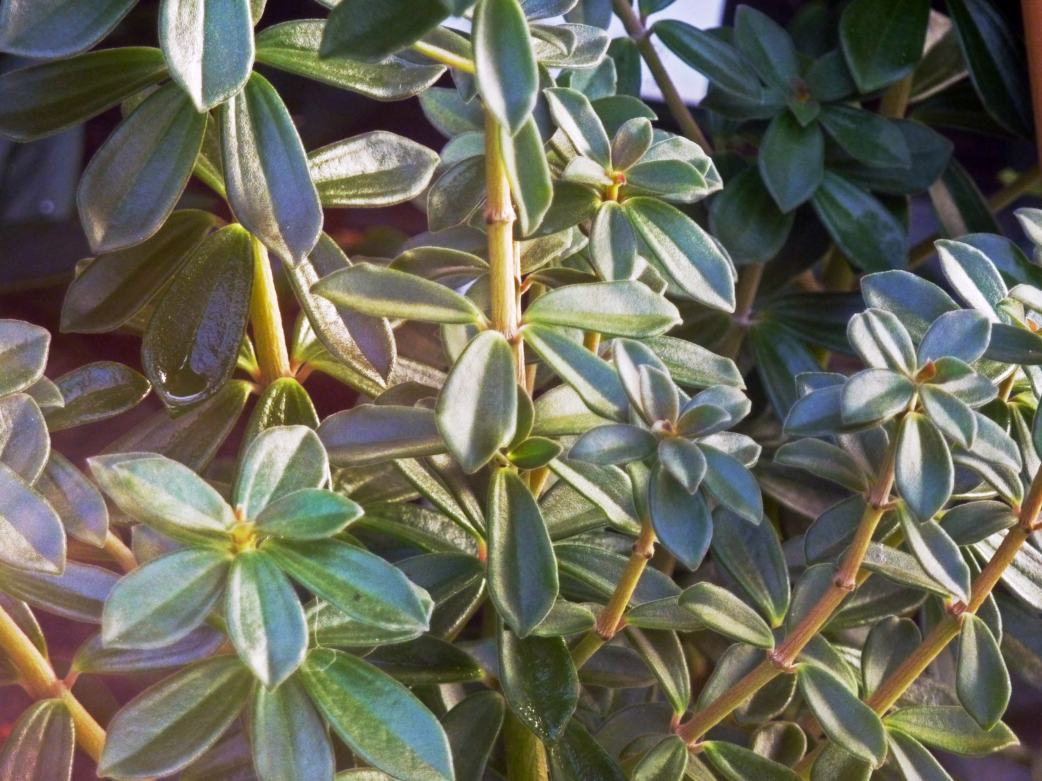 Peperomia camptotricha in the Botanical Garden, Berlin